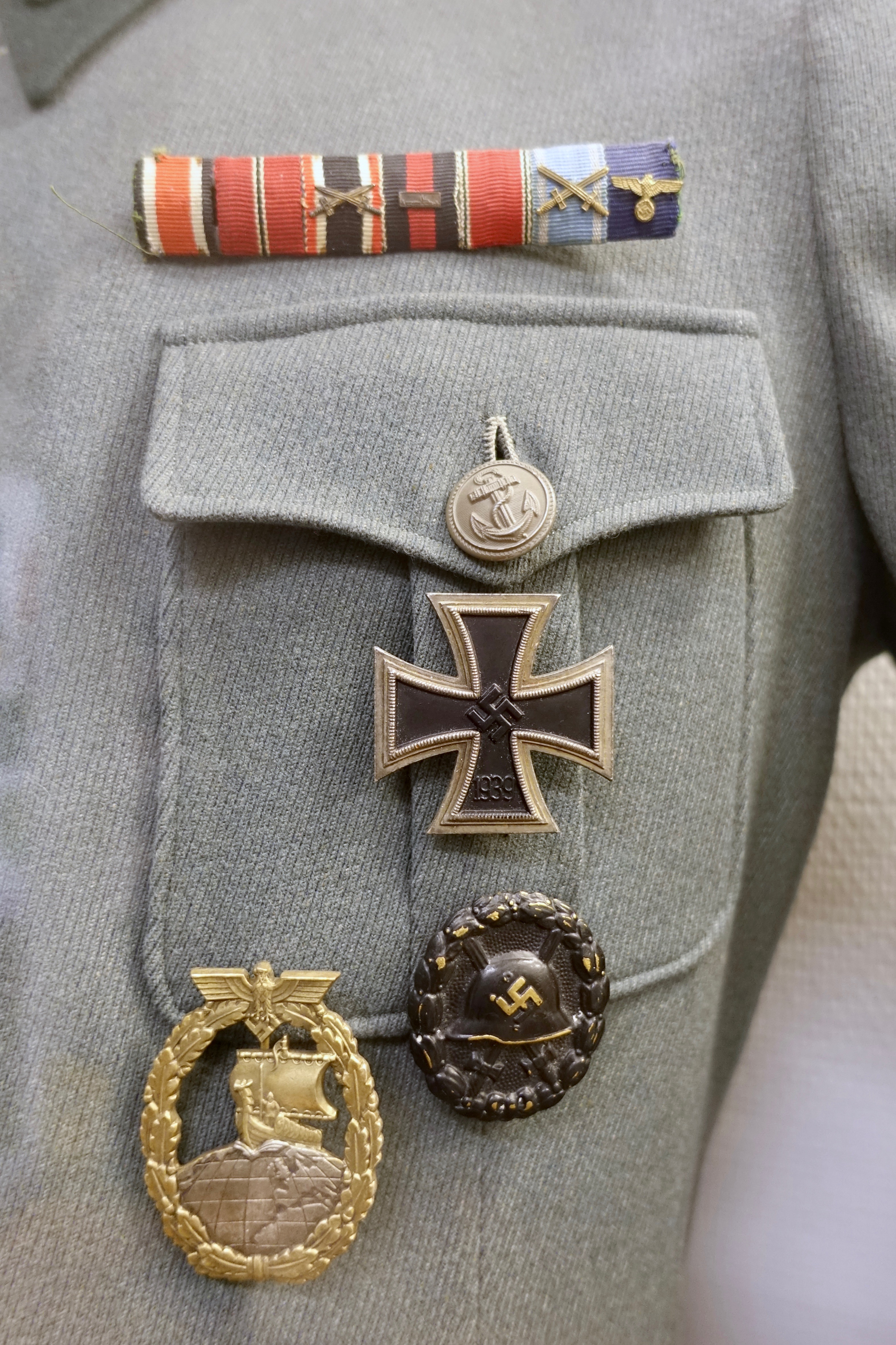 Detail of a full dress uniform for an officer in the coast artillery (Marine Küsten Batterie) of the Kriegsmarine, the navy of Nazi Germany before and during World War II. The ribbons for valor and service on the ribbon bar over the tunic's left chest pocket represent the following orders, decorations, and medals (from left to right): 1. Iron Cross 2nd Class 1939 2. Eastern Front Medal (Medaille „Winterschlacht im Osten 1941/42“ / Ostmedaille ) 3.War Merit Cross 2nd Class with Swords 4. Czech Anschluss? 5. Air Defence 1st or Austria Anschluss? 6. NSDAP (Nazi Party) Long Service Award or Finnish liberation cross class 1? 7. Army 12 or 25 or 40 years service with device? The military order and badges are: 1. Auxiliary Cruiser Badge 2. Iron Cross 1939 3. Wound badge White balance adjusted photo taken on May 8, 2019 at the Lofoten War Memorial Museum (Lofoten Krigsminnemuseum) in Svolvær, Norway. The museum exhibits uniforms, militaria, memorabilia, smaller items, etc. related to World War II, the German occupation of Norway 1940 – 1945, and the Third Reich era. (Lofoten Krigsminnemuseum 2019) (Lofoten Krigsminnemuseum 2019) Without white balance adjustment(Lofoten Krigsminnemuseum 2019) Legal disclaimer This image shows (or resembles) a symbol that was used by the National Socialist (NSDAP/Nazi) government of Germany or an organization closely associated to it, or another party which has been banned by the Federal Constitutional Court of Germany. The use of insignia of organizations that have been banned in Germany (like the Nazi swastika or the arrow cross) are also illegal in Austria, Hungary, Poland, Czech Republic, France, Brazil, Israel, Ukraine, Russia and other countries, depending on context. In Germany, the applicable law is paragraph 86a of the criminal code (StGB), in Poland – Art. 256 of the criminal code (Dz.U. 1997 nr 88 poz. 553).